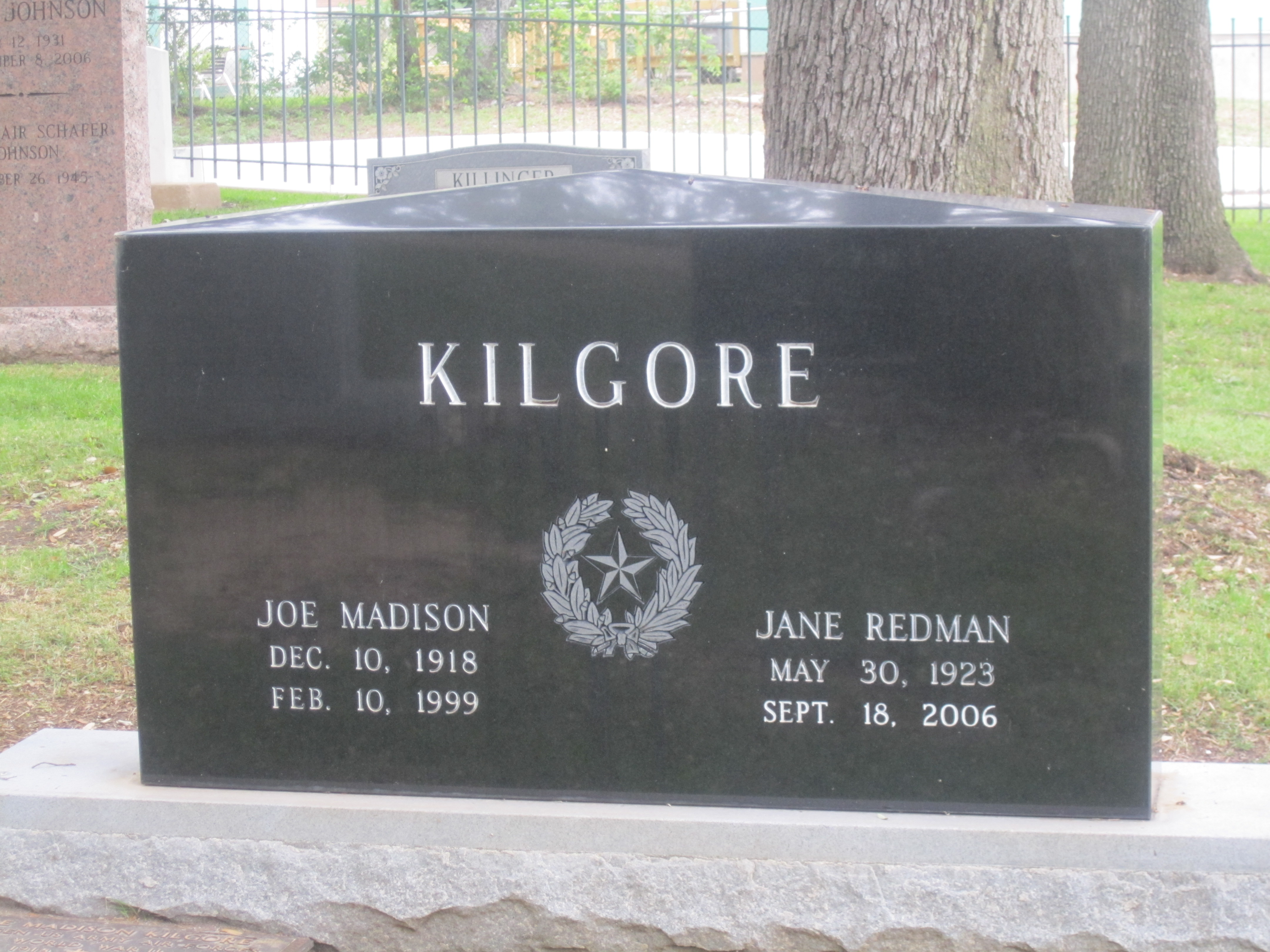 I took photo with Canon camera at Texas State Cemetery in Austin: Joe M. Kilgore grave.